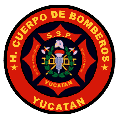 Seal of the Fire Department of the State of Yucatan